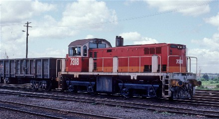 Candy 7318 shunts at South Grafton